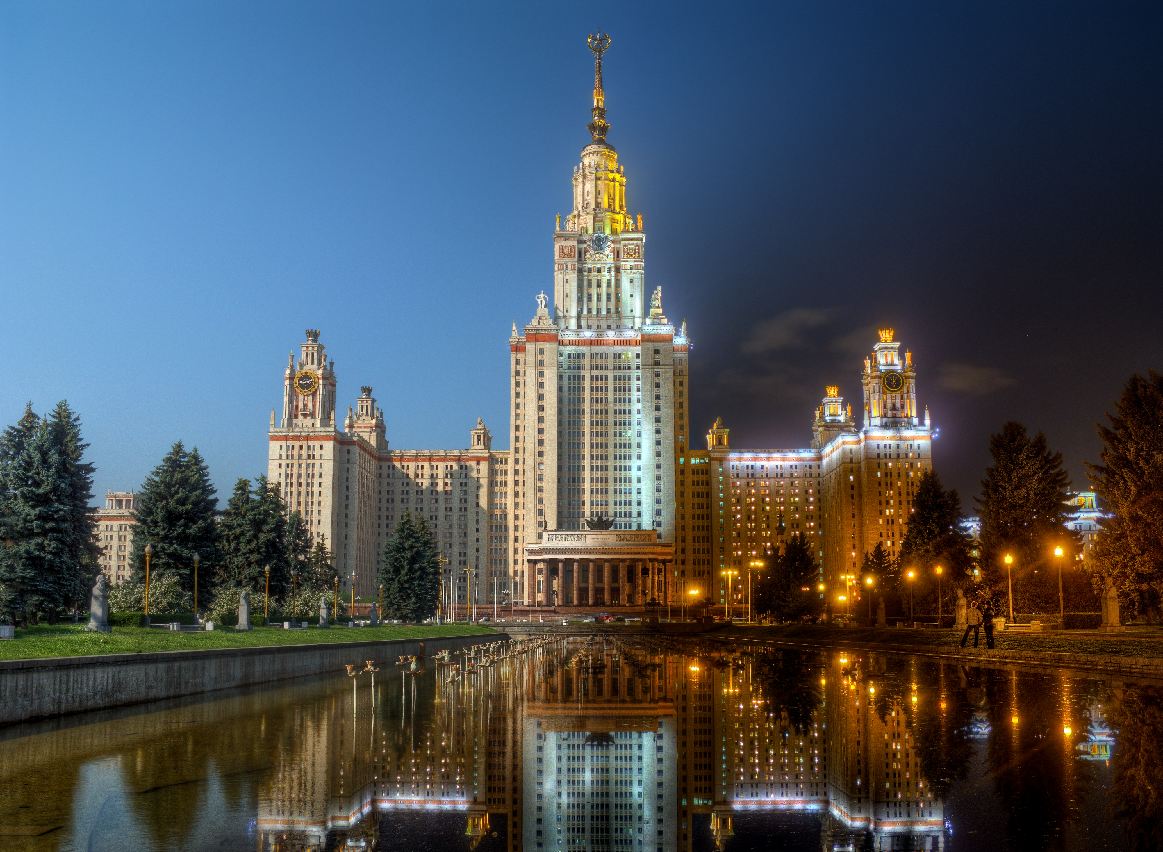 Some weird blending of day and night shots of same location. I saw this nice effect at photo Day to Night by author Vonderauvisuals and tried to achieve same effect. (reposted: more smooth blending) Original resolution: 4000 x 2930. Prints | Blog | Facebook | Google+ | DeviantArt | 500px | Tumblr